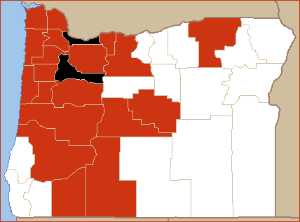 I created this image myself using Macromedia Fireworks MX 2004. The original is located here and created by User:Ruhrfisch.